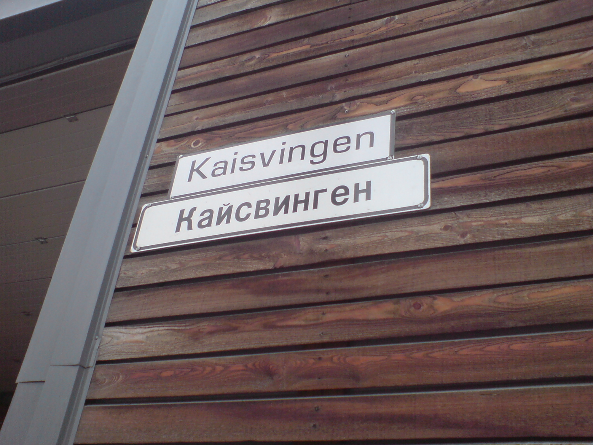 Bilingual inscriptions (Norwegian and Russian) are common in Kirkeness, Norway